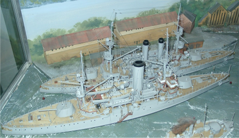 Models of the HNoMS Tordenskiold (foreground) and HNoMS Eidsvold (rear). Picture taken by uploader at the Armed Forces Museum in Oslo, Norway. Released under the GFDL.